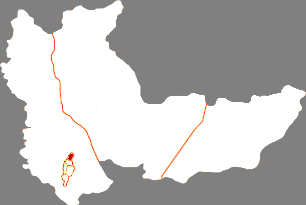 Location of Xingshan District in Hegang City, China